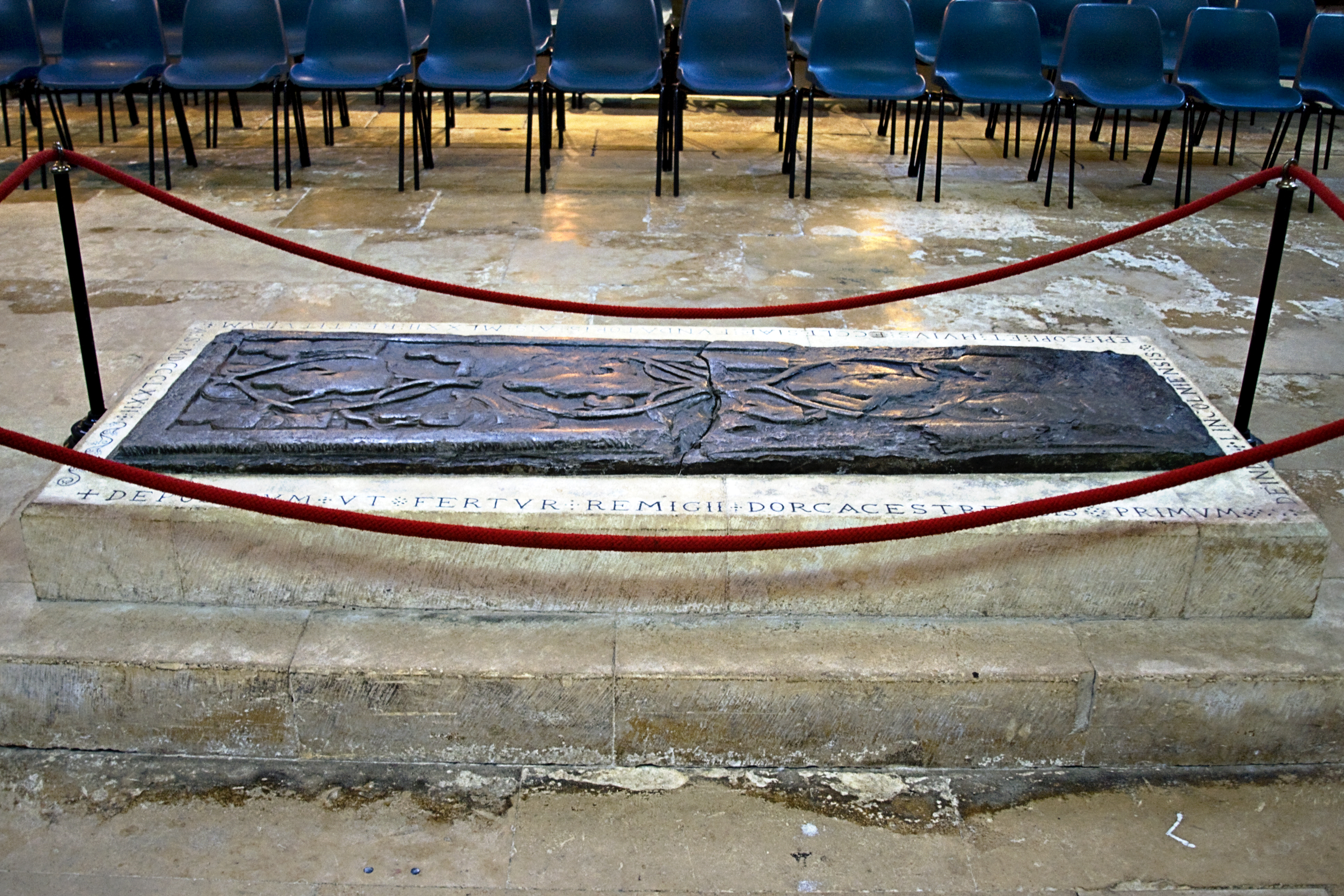 Tomb of Remigius, Bishop of Lincoln, in Lincoln Cathedral, Lincoln, England